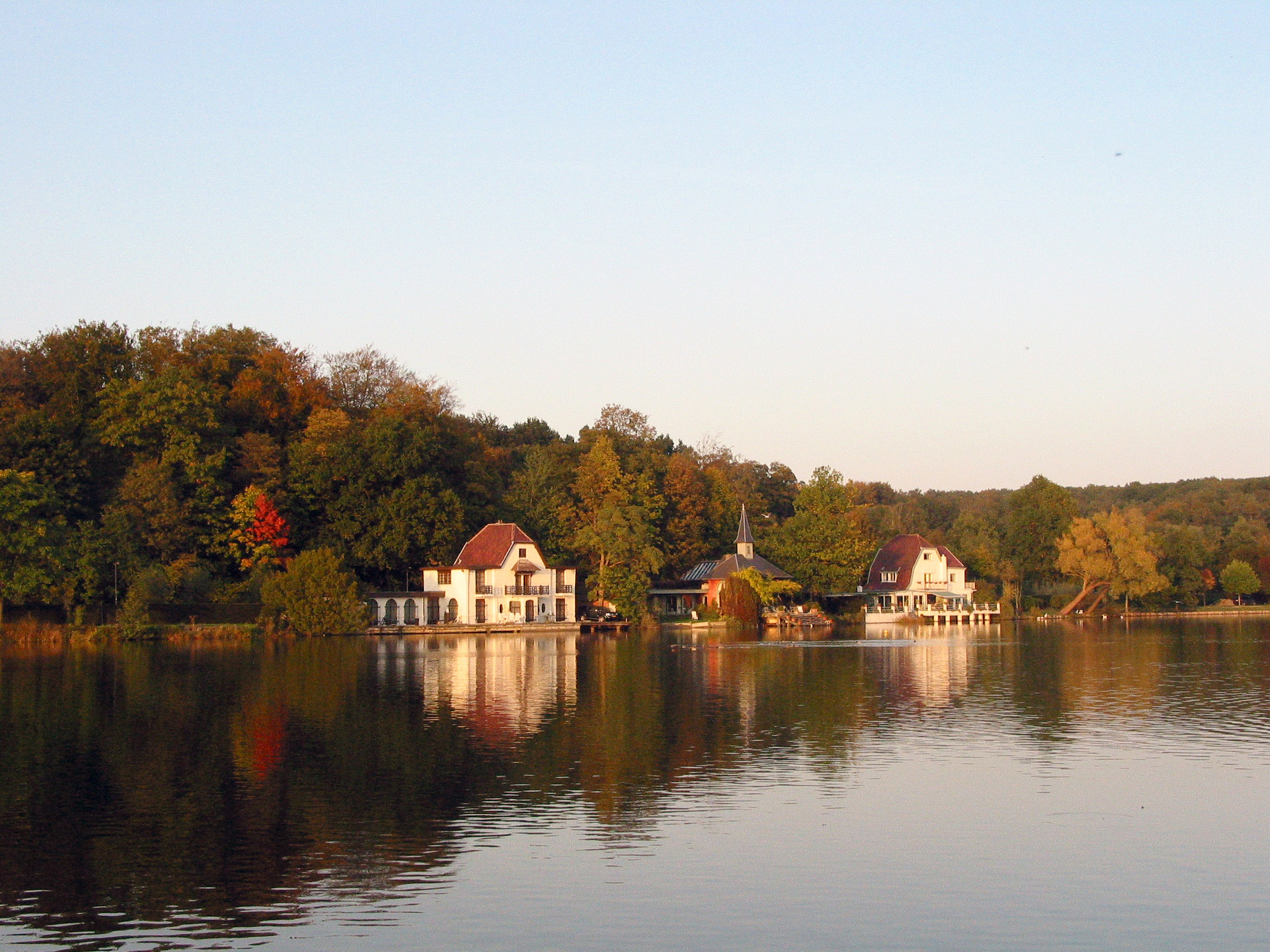 Overijse (Belgium), the lake.